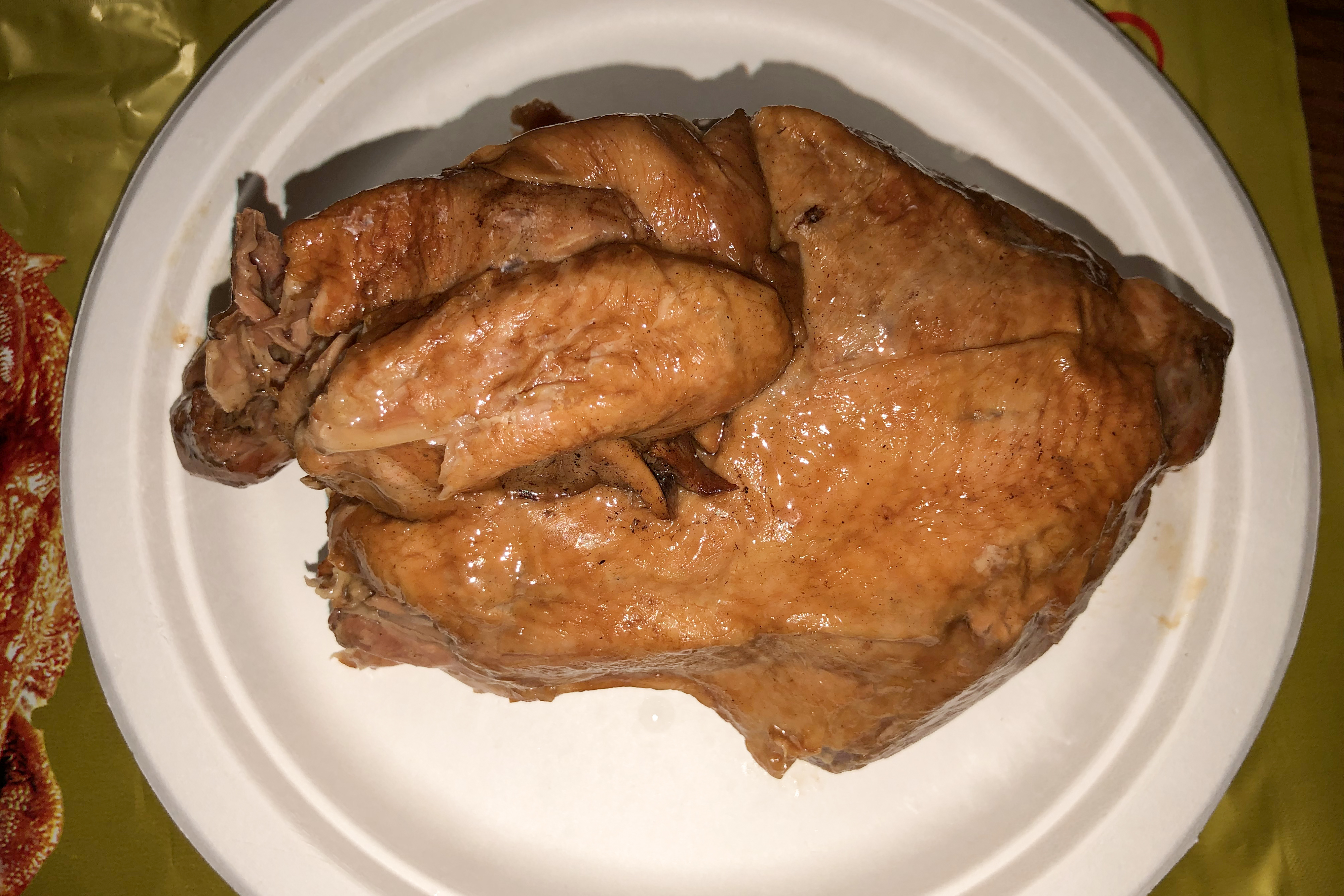 Only vacuum-packaged versions are available on 12306 Specialities. This example is bought from Hefeinan Station (picked on G28).